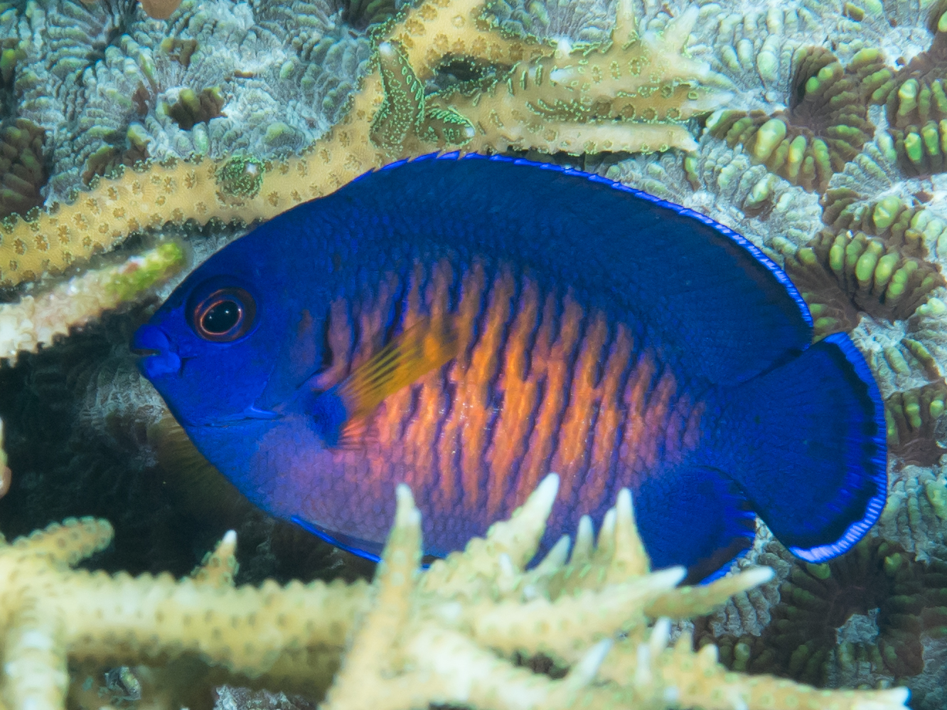 Two-spined angelfish (Centropyge bispinosa). Raja Ampat